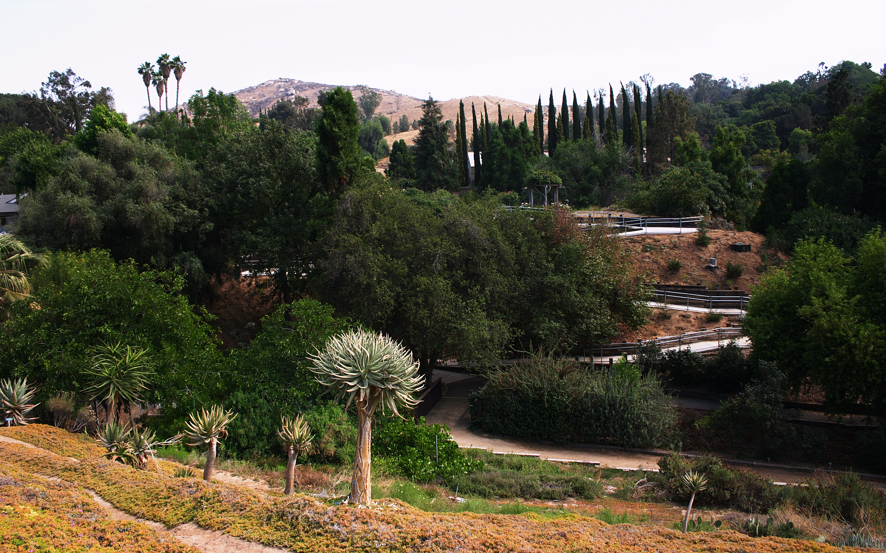 View of the University of California, Riverside, Botanic Gardens